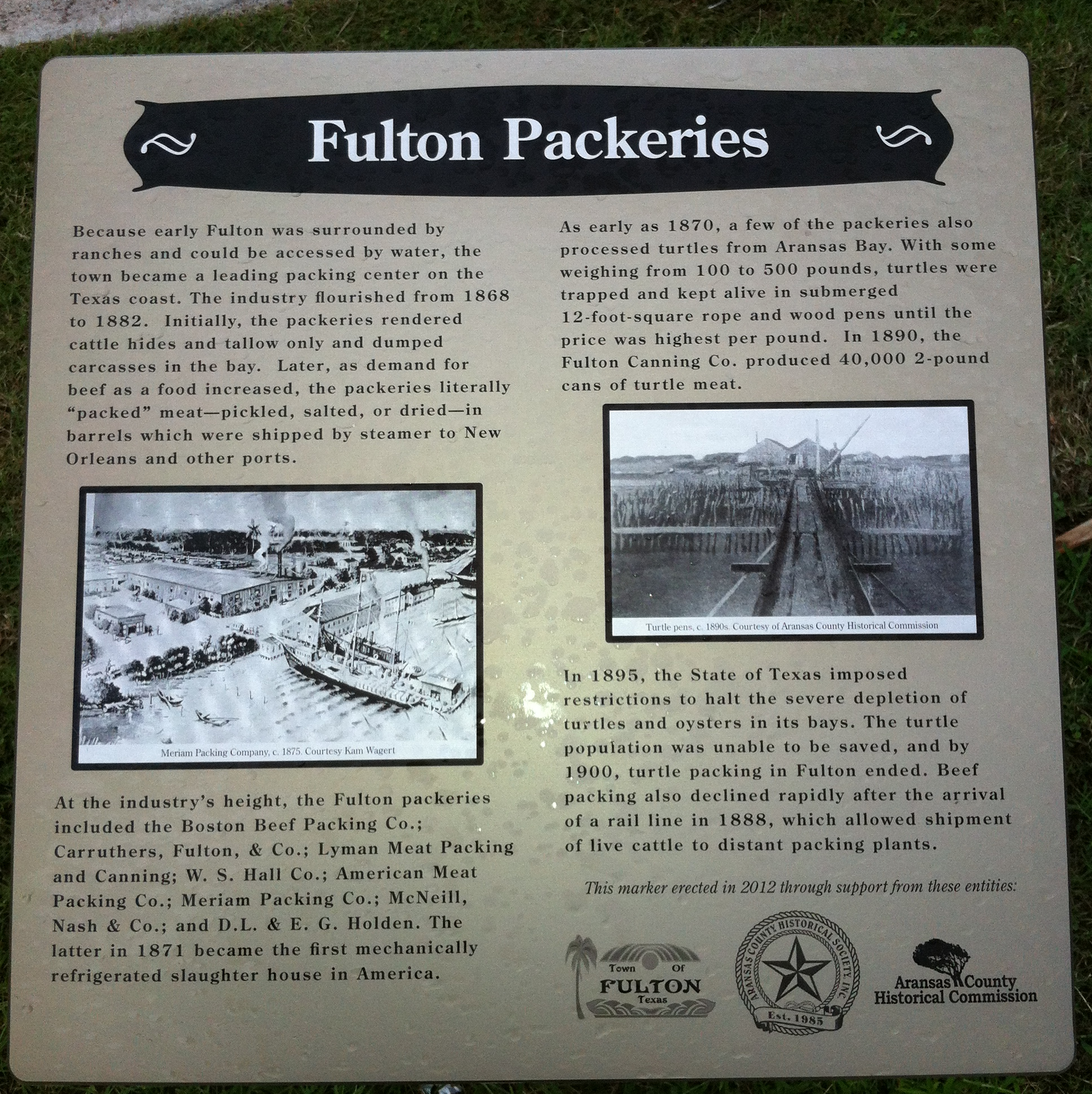 Sign on the Fulton, Texas waterfront explaining the industrial heritage of the area